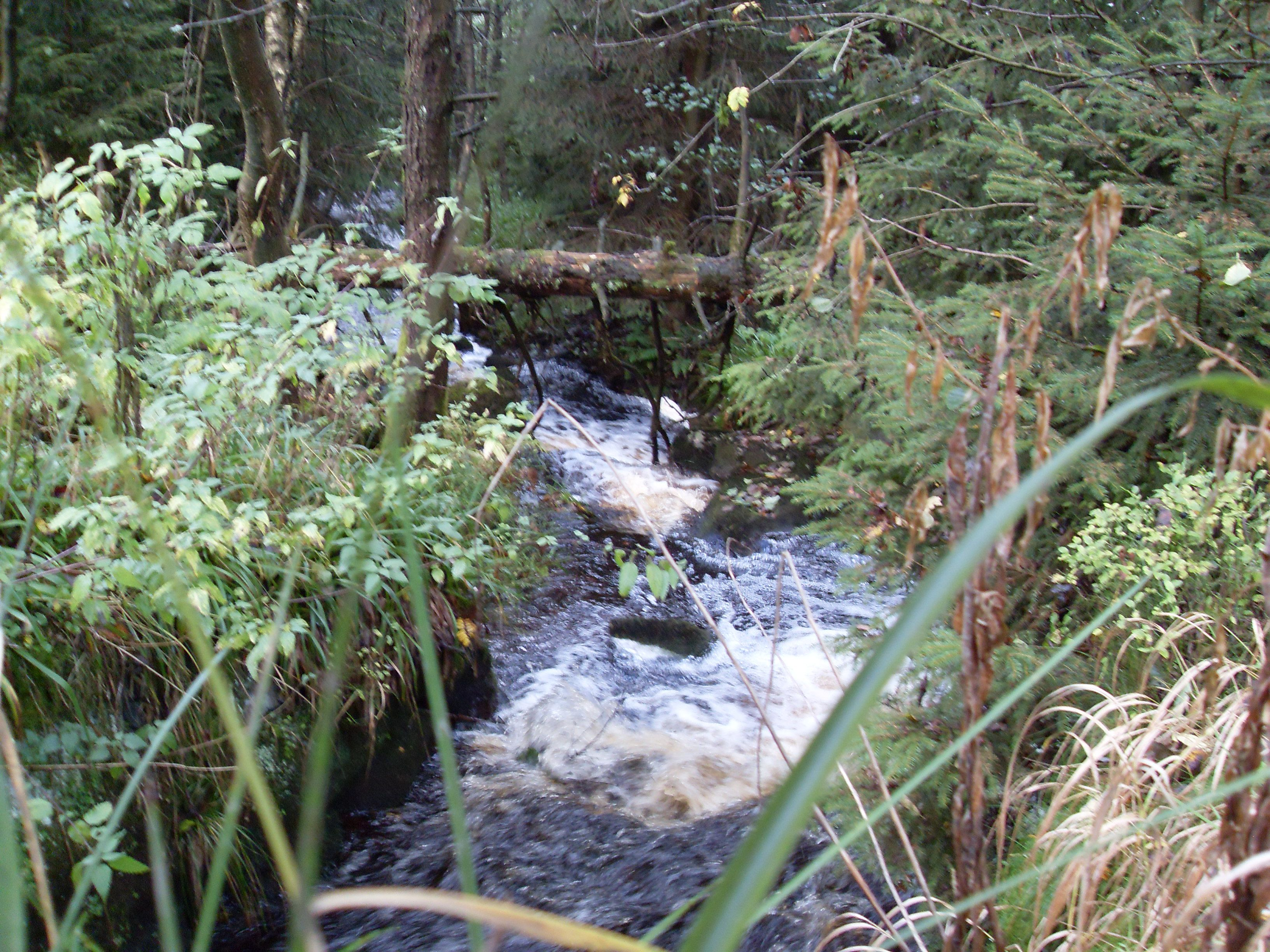 The river Radau close to Torfhaus